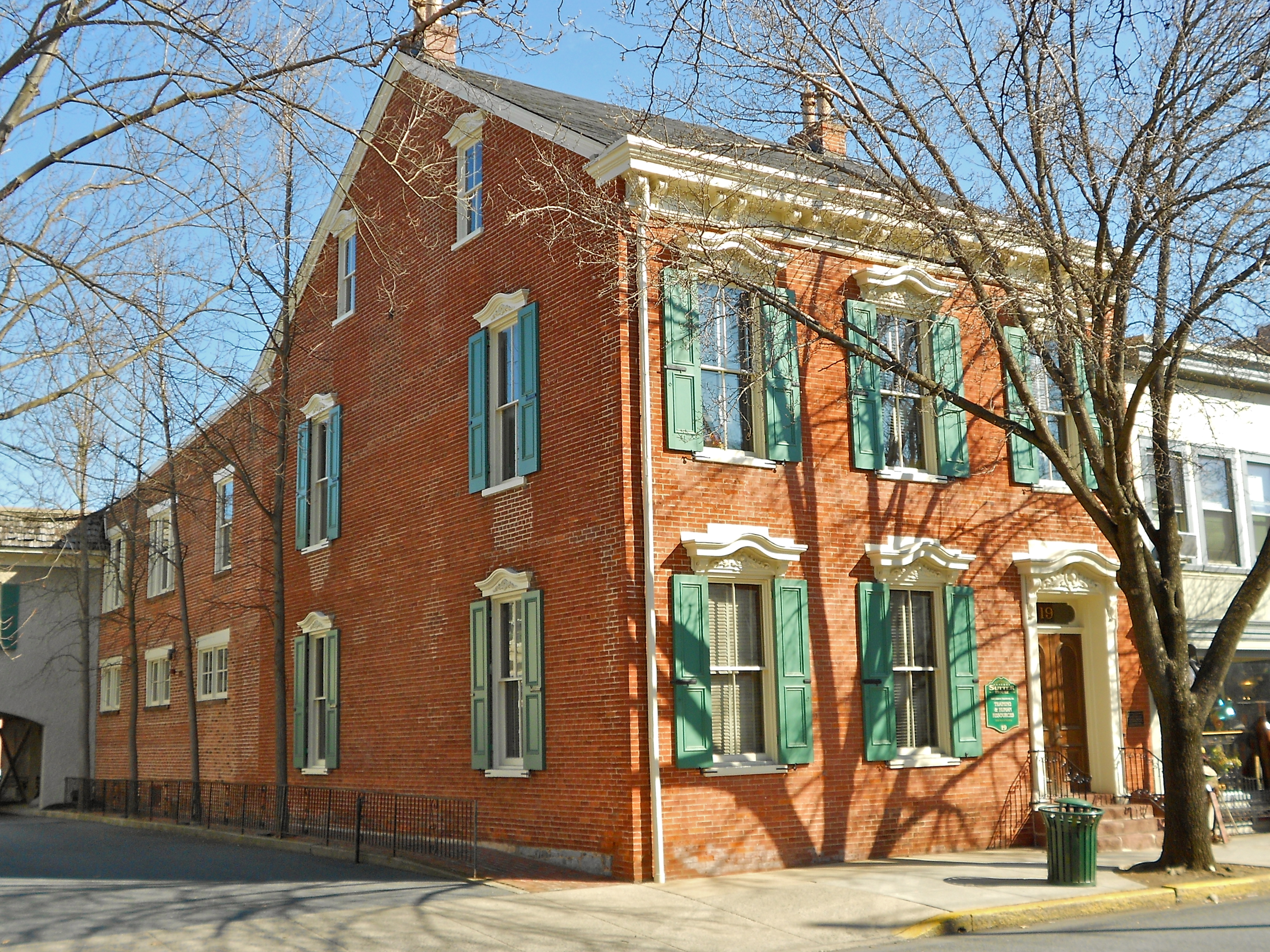 Johann Agust Sutter House on the NRHP since April 20, 1982. At 17–19 East Main Street, Lititz, Lancaster County, Pennsylvania. Sutter was the first to discover gold in California, which seems to have ruined him financially. He moved to here afterwards and ran the Inn across the street. Spelling of middle name is at least consistent.